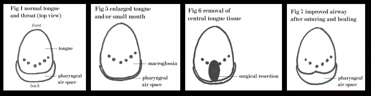 This is a diagram of four images showing the anatomical structures removed during a midline hemiglossectomy.